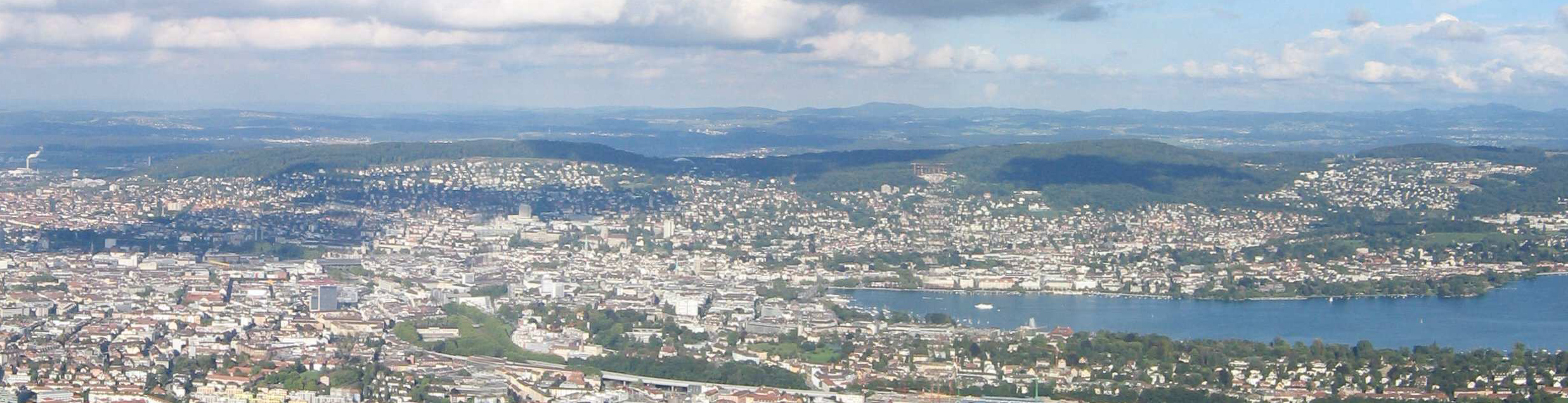 View of Zurich and the chain of hills of Zürichberg, Adlisberg and Öschbrig - Switzerland. Photo taken at Utliberg